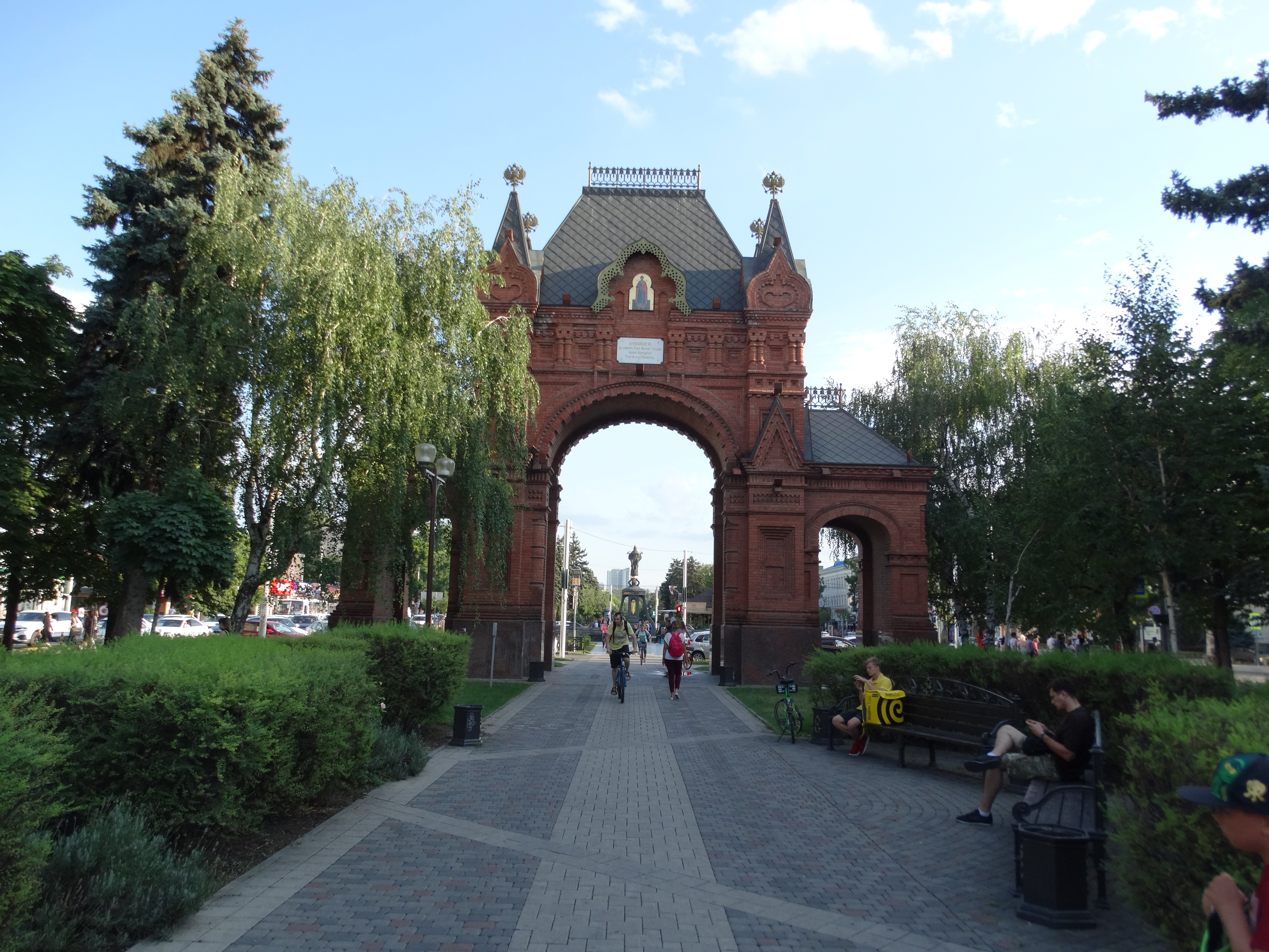 Krasnodar, Arc de Triumph